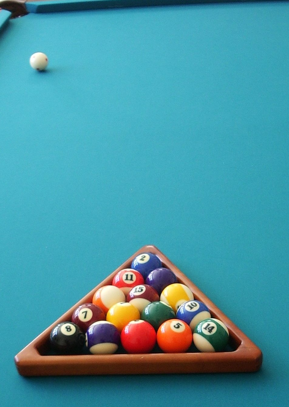 Racking up a game of cribbage pool, with the 15 ball in the middle, no two corner balls adding up to 15, and the apex ball on the foot spot. This is the cropped version; see below for wider view.